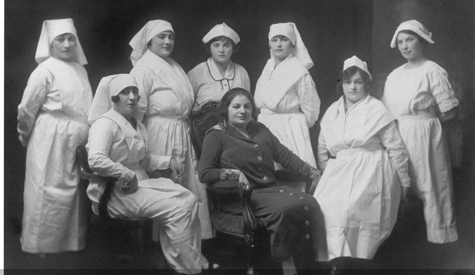 Dorothy Dworkin with members of the Mount Sinai Hospital Ladies Auxiliary, Toronto [graphic material] – [ca. 1923]. PART OF Dorothy Dworkin fonds LEVEL Item FONDS 10 ITEM 1 MATERIAL FORMAT graphic material DATE [ca. 1923] PHYSICAL DESCRIPTION 3 photographs : b&w (1 negative) ; 23 x 30 cm or smaller SCOPE AND CONTENT Item is a photograph of Dorothy Dworkin (seated in the centre) with members of the Mount Sinai Hospital Ladies Auxiliary, Toronto. Celia Goldstein stands in the back row on the right and Mrs. Salkovitch stands in the back row, second from the right. NOTES The negative and one of the prints are copies made by the OJA after acquiring the photographs. NAME ACCESS Goldstein, Celia Salkovitch, Mrs. Mount Sinai Hospital Mount Sinai Hospital Ladies Auxiliary REPRO RESTRICTION Copyright is in the public domain and permission for use is not required. Please credit the Ontario Jewish Archives as the source of the photograph. ACCESSION NUMBER 2005-4-5 SOURCE Archival Descriptions